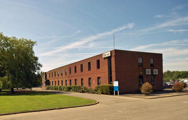 Birse Offices, Humber Road. Offices of Birse Construction Ltd. on Humber Road.